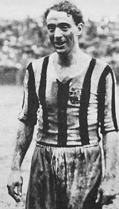 Turin (Italy), Campo Juventus ("Juventus Ground"), May 1, 1932. F.B.C. Juventus' footballer Federico Munerati leave the pitch at the end of the home victory versus Bologna S.C. (3-2), Matchday 28 of the Italian League 1931–32 Serie A.